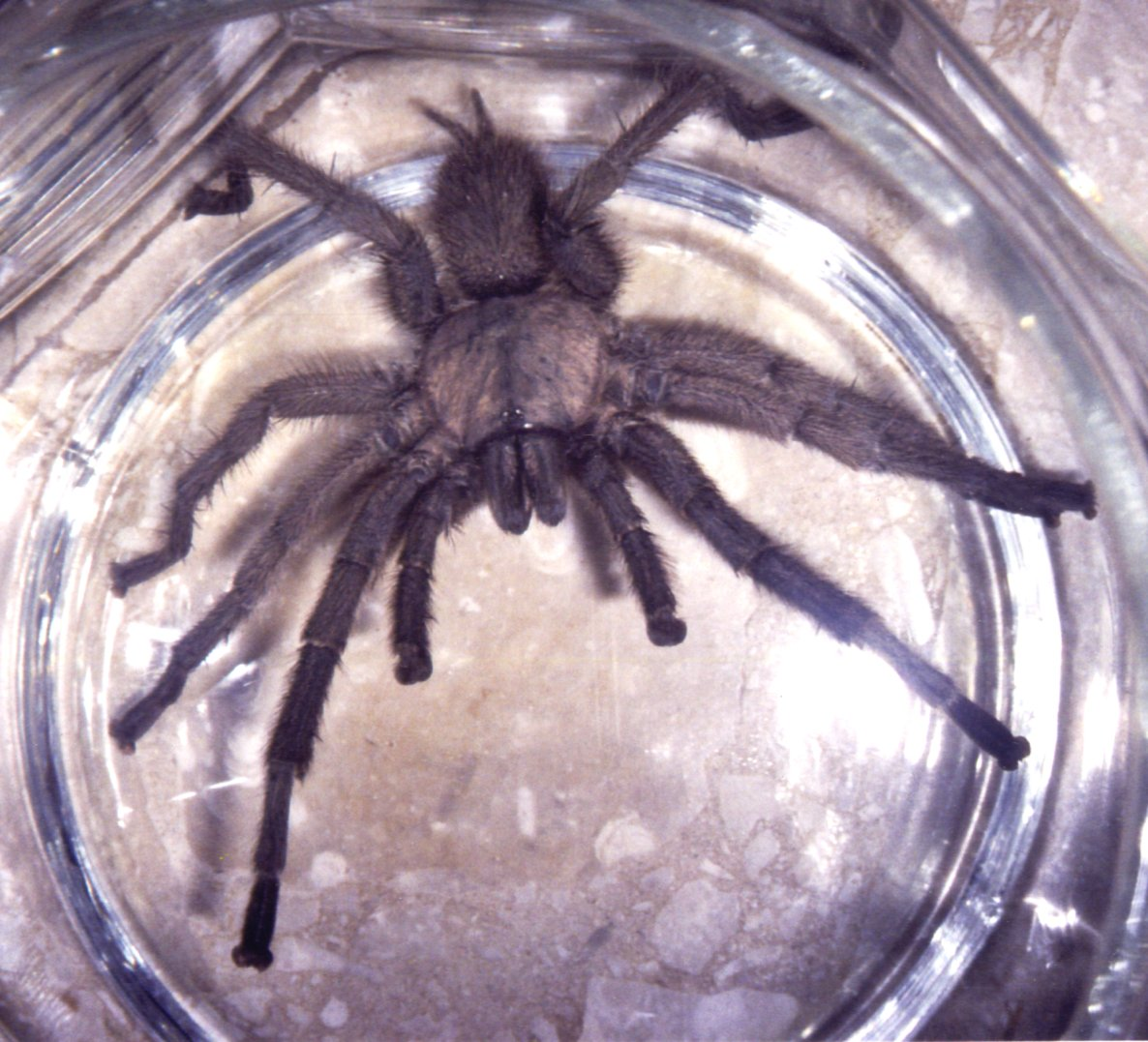 Chaetopelma gracile spider in a jar (photo #2) Photographed by myself in 2003; scanned today, Dec. 14, 2005.